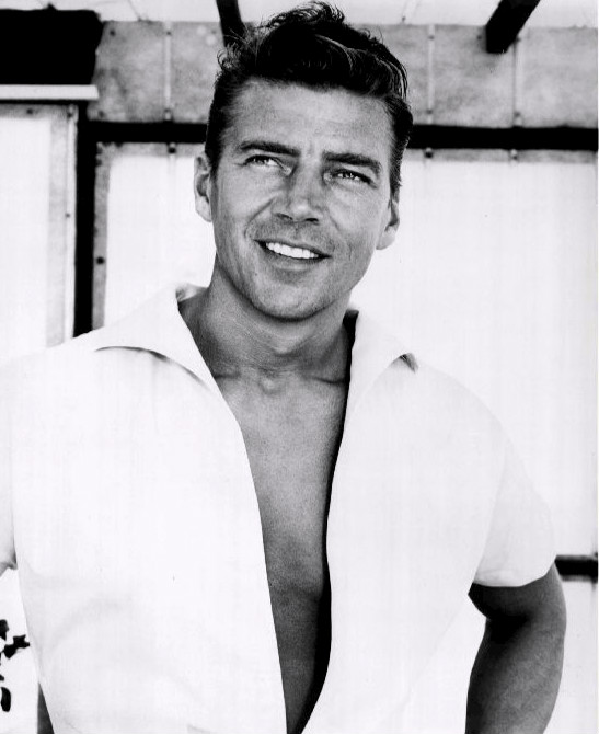 Publicity photo of Mickey Hargitay.